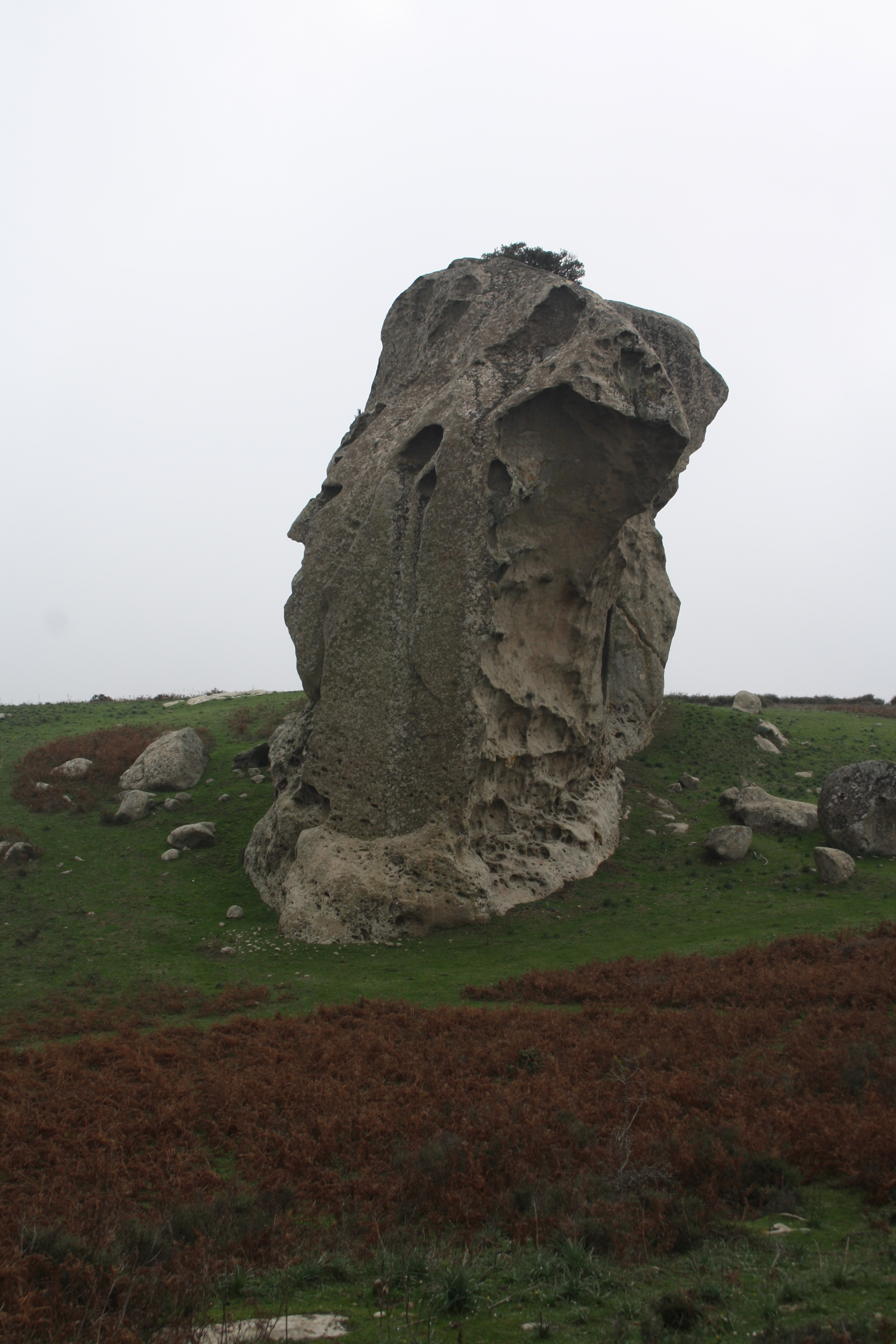 Ofiucus stone. Natural rock formation.